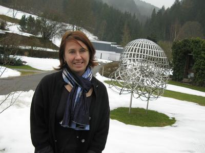 Picture of Valérie Berthé